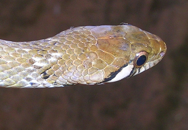 Amphiesma beddomei from Wayanad